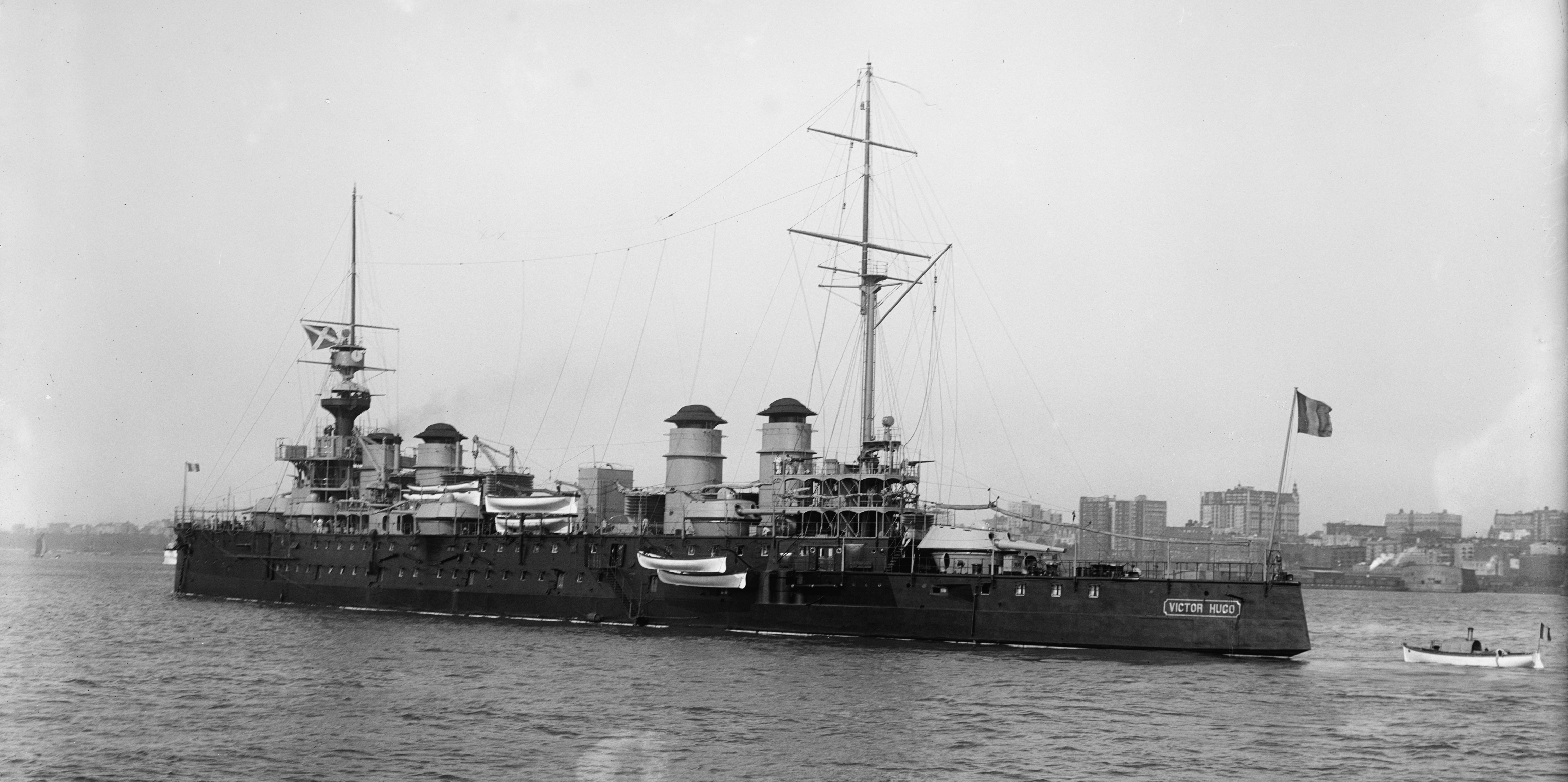 French cruiser Victor Hugo